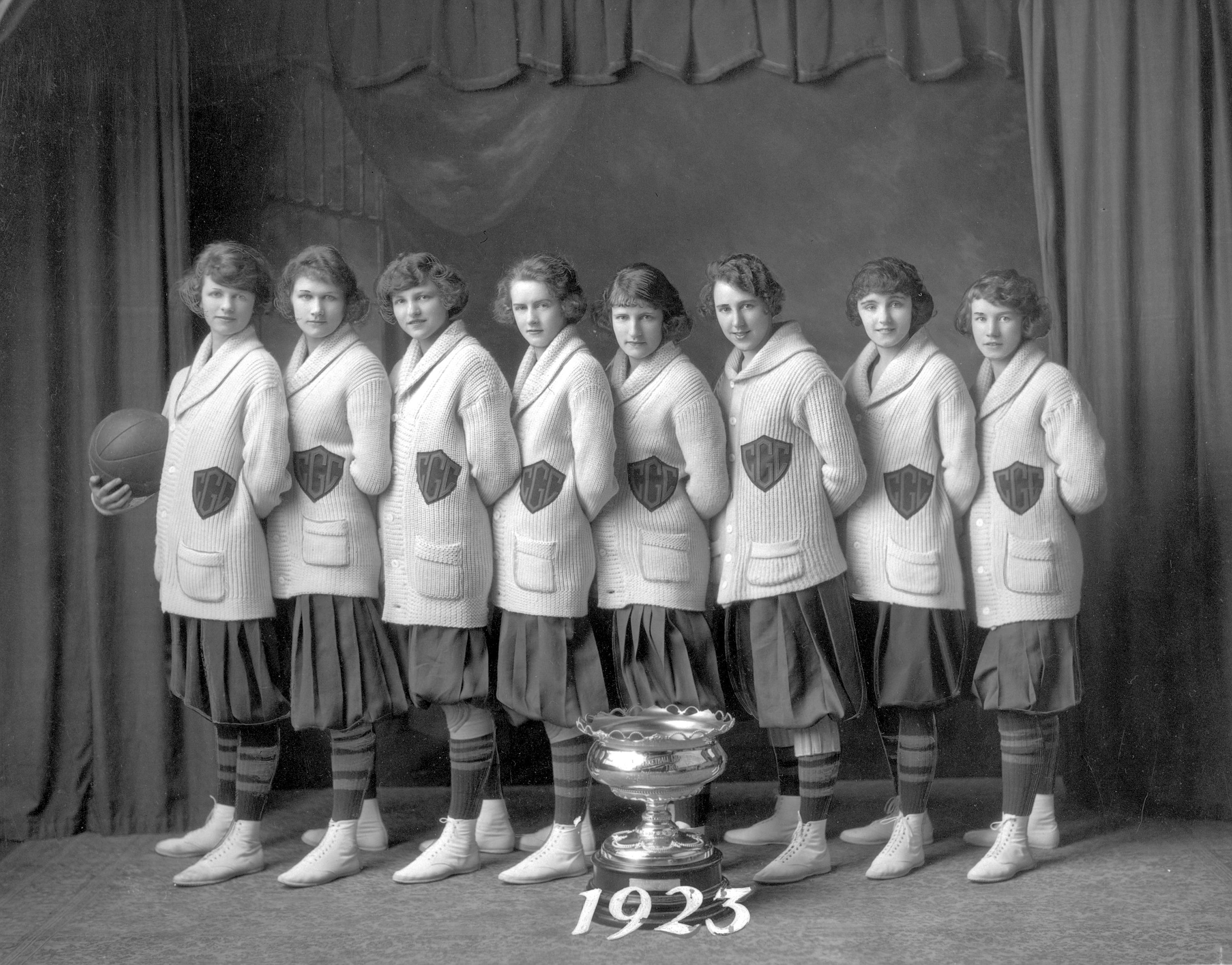 Left to Right: Eleanor Mountifield (Captain), Connie Smith, Abbie Scott, Dorothy Johnson, Nellie Perry, Winnie Martin, Elizabeth Elrich, Mary Dunn. A11413.